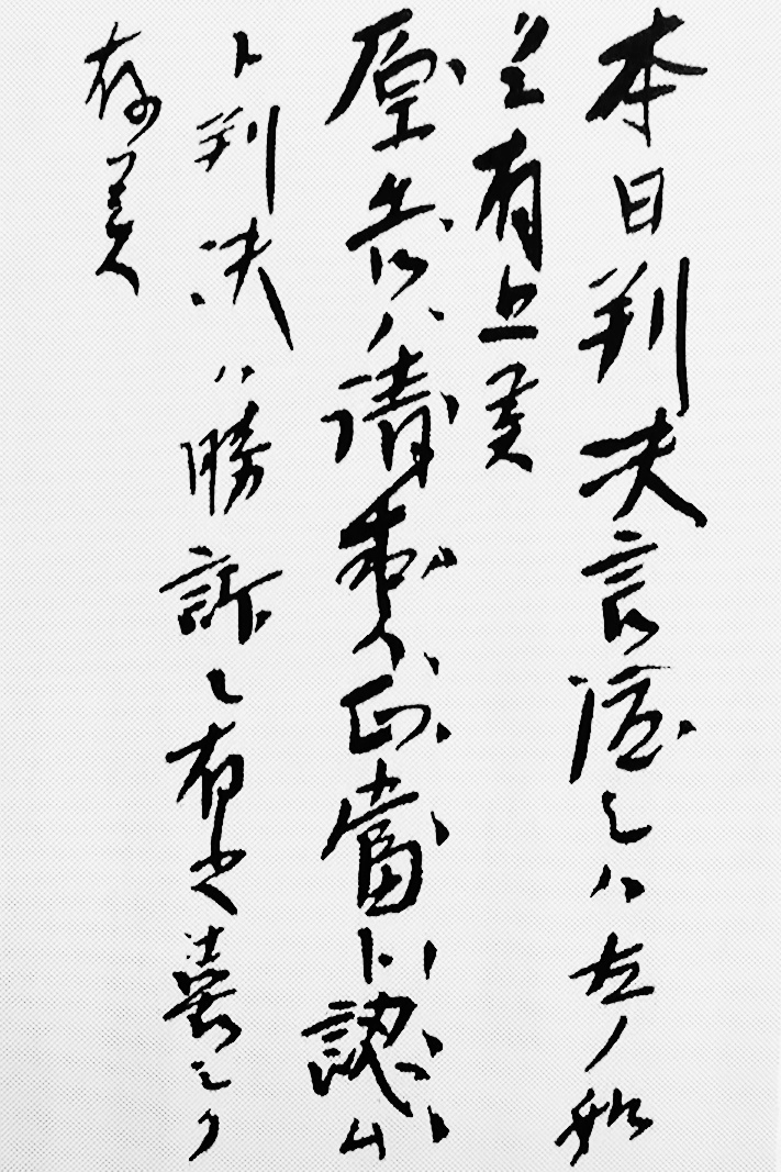 Letter informing the trial court prevailing